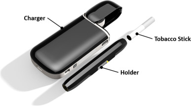 Evaluation of the Tobacco Heating System 2.2. Part 1: Description of the system and the scientific assessment program The THS2.2 product differs from a cigarette in significant ways.